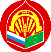 Coat of arms of Giaginski District, Adigeya, Russia